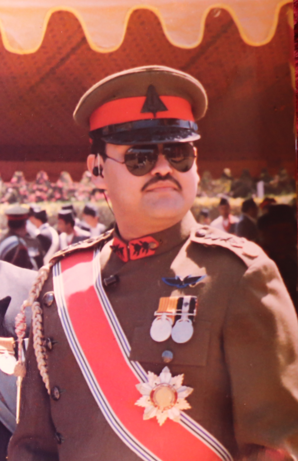 Crown Prince Dependra Bikram Shah Dev